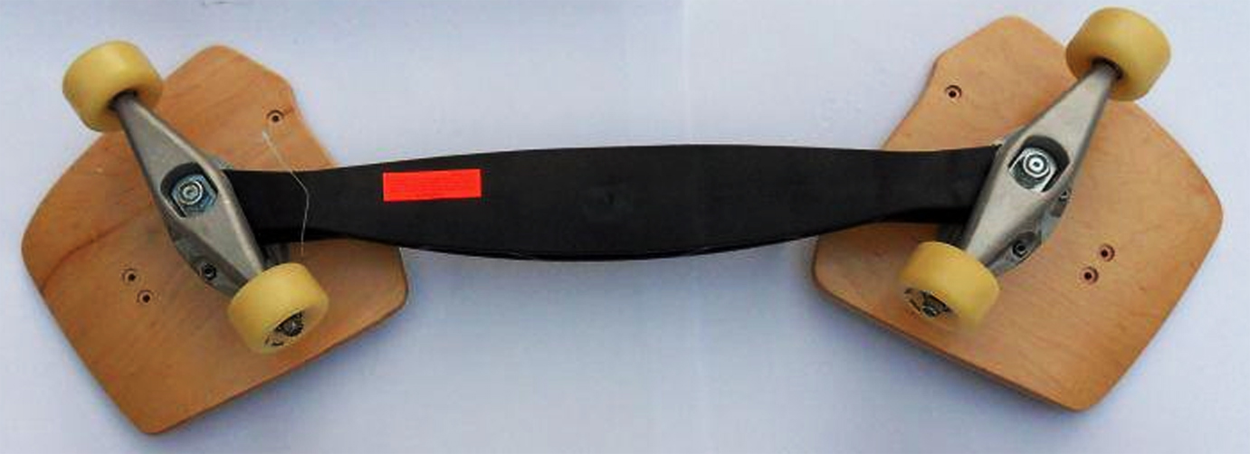 snakeboard